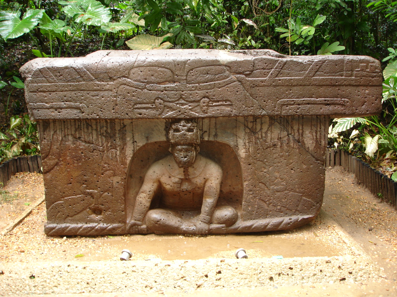 A front view of Altar 4 at the La Ventasite, courtesy of Ruben Charles.